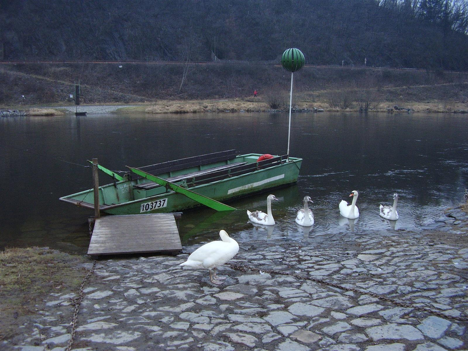 Ferry in Vrané nad Vltavou